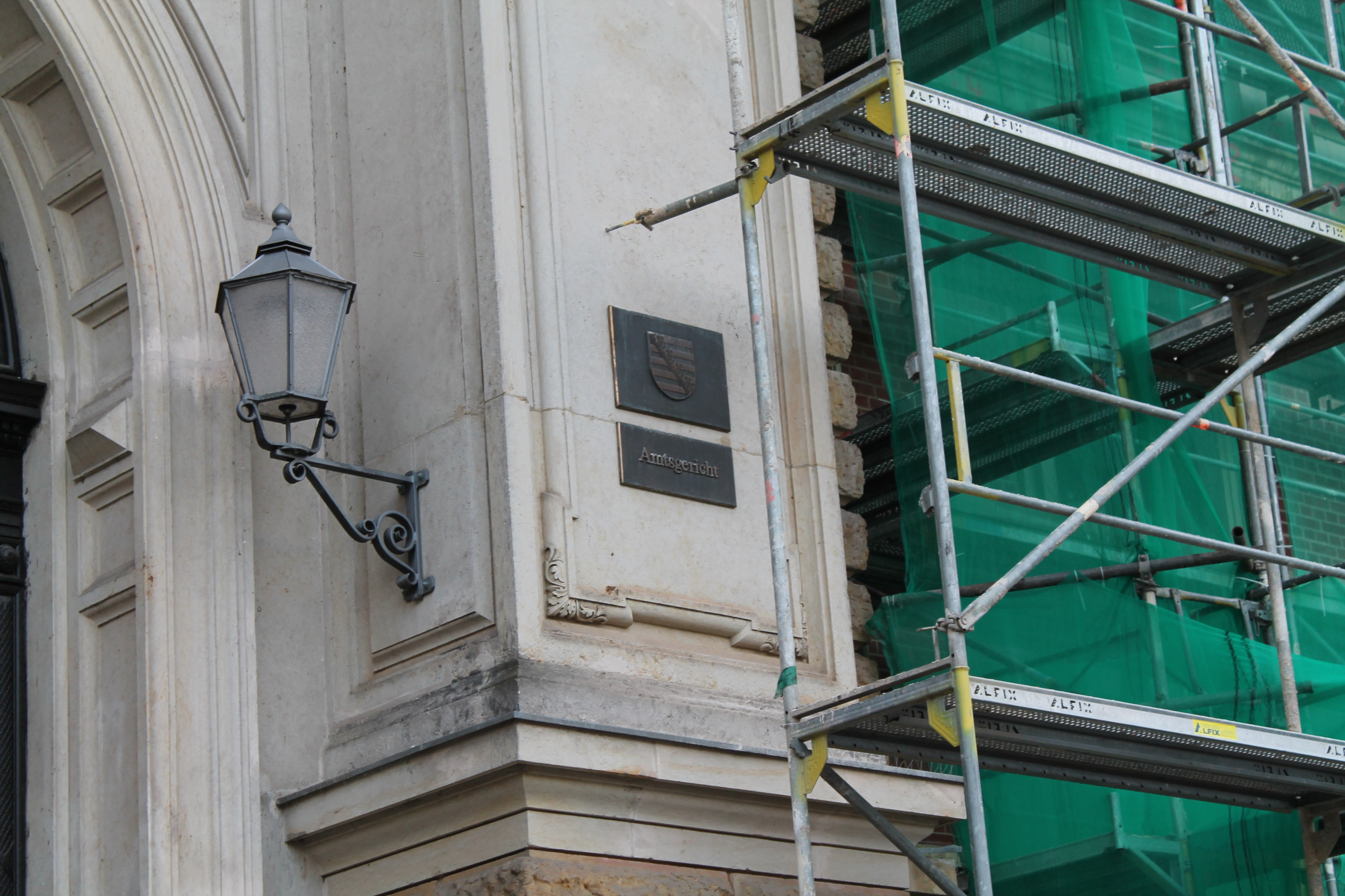 Courthouse in Zwickau, Saxony, Germany.